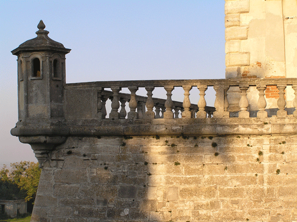 The castle in Podhorce (Ukraine).